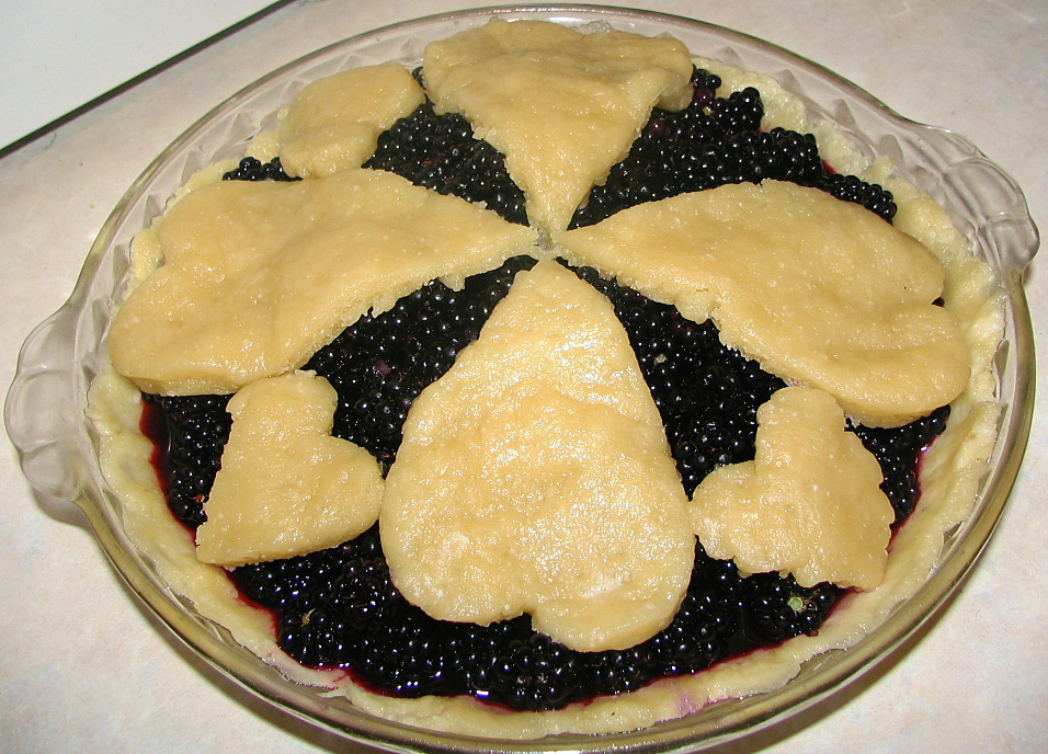 Picture of a Blackberry pie.